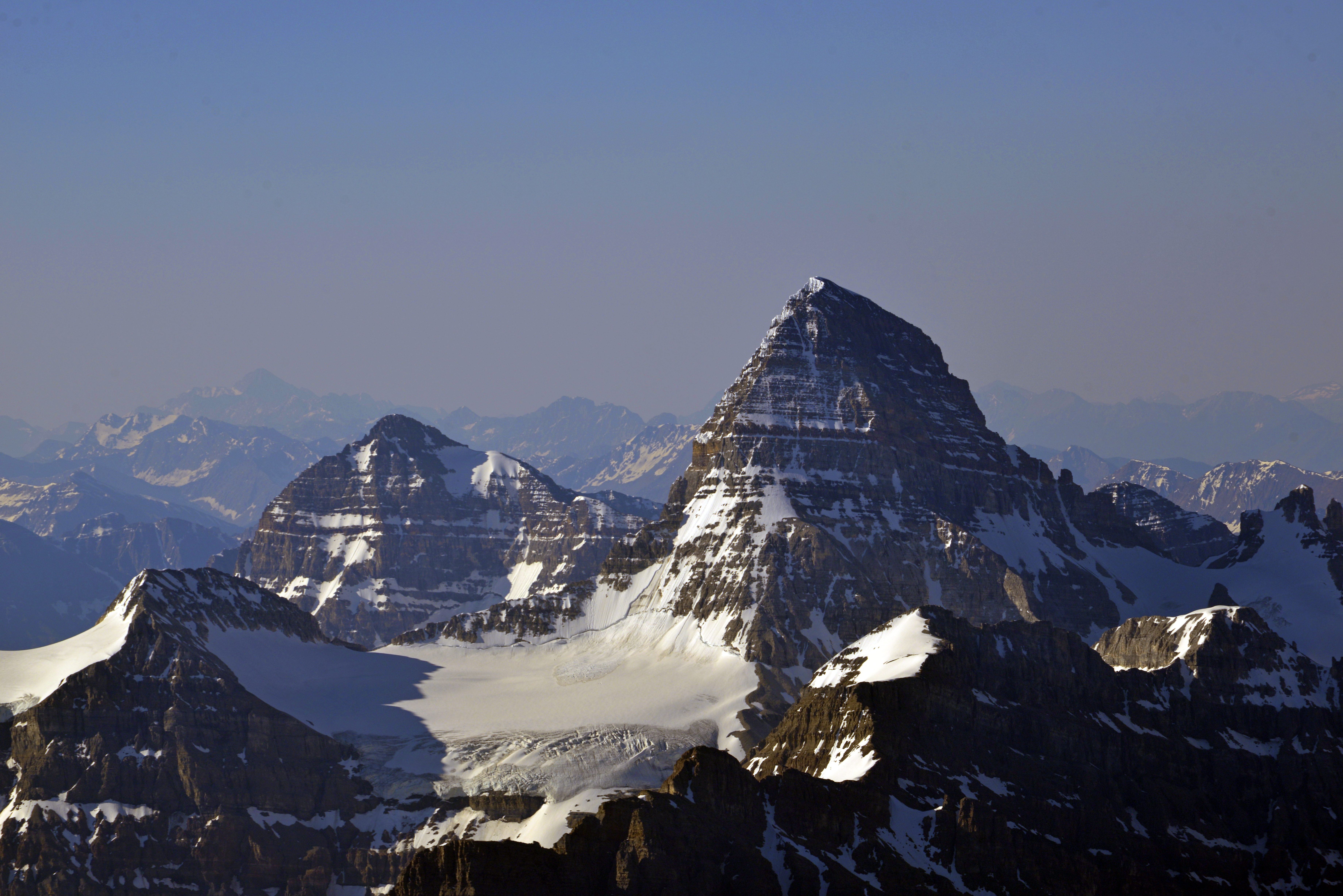 Mt. Assiniboine in morning light (2017)